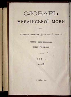 Title page from Dictionary of Ukrainian Language by Boris Hrinchenko, from 1907